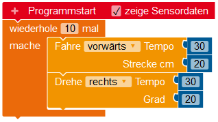 Example with program blocks of the NEPO programming language